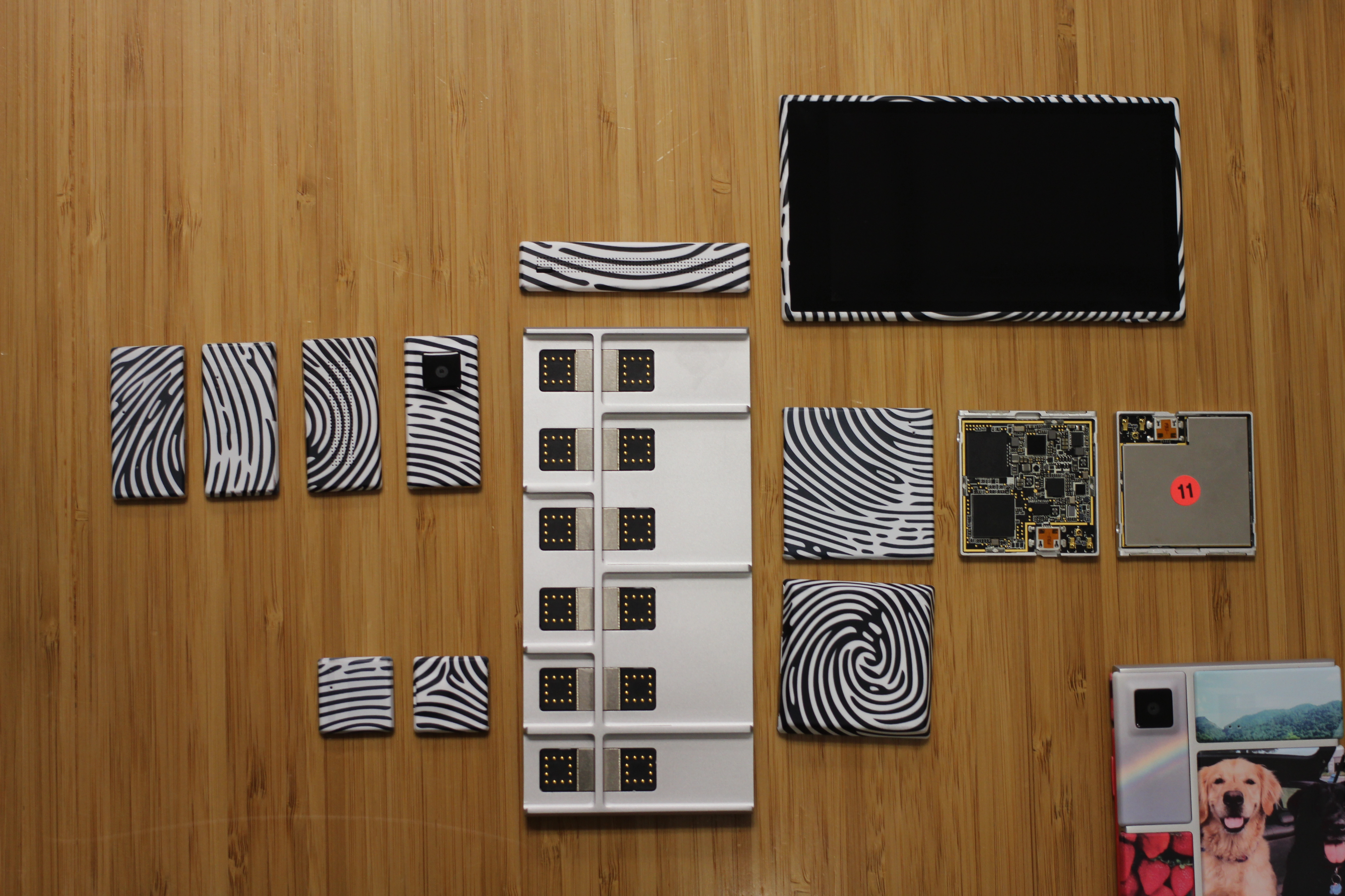 Project Ara Spiral 2 Prototype